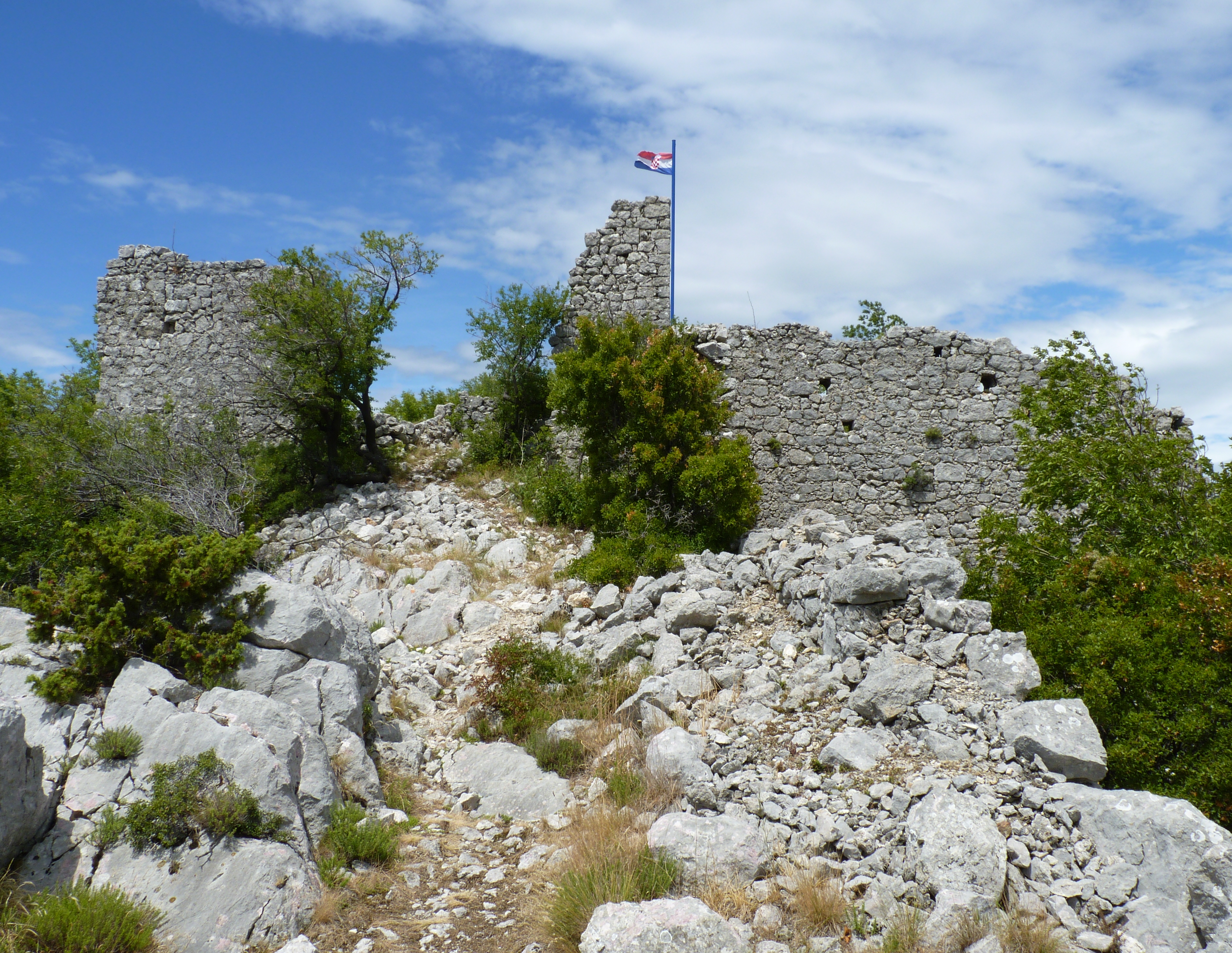 Ledenice Castle, Primorje-Gorski Kotar County, Croatia